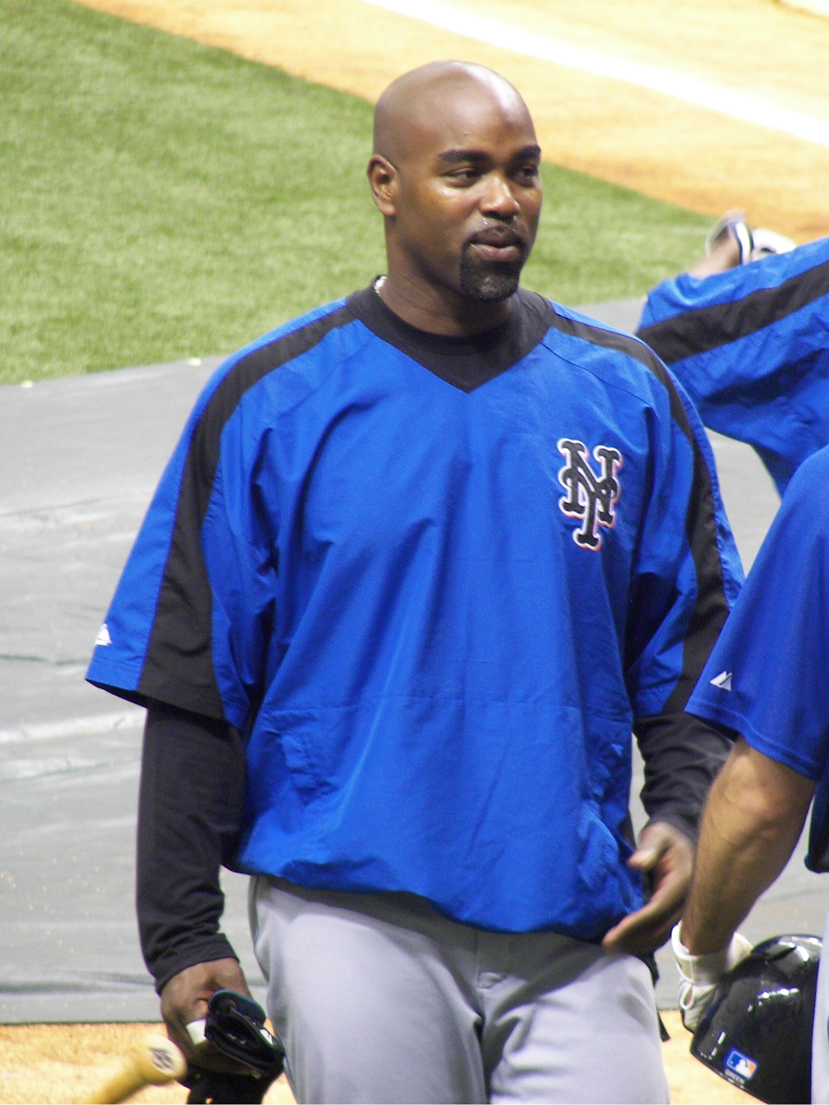 New York Mets first baseman Carlos Delgado before a Mets/Devil Rays spring training game at Tropicana Field in St. Petersburg, Florida.